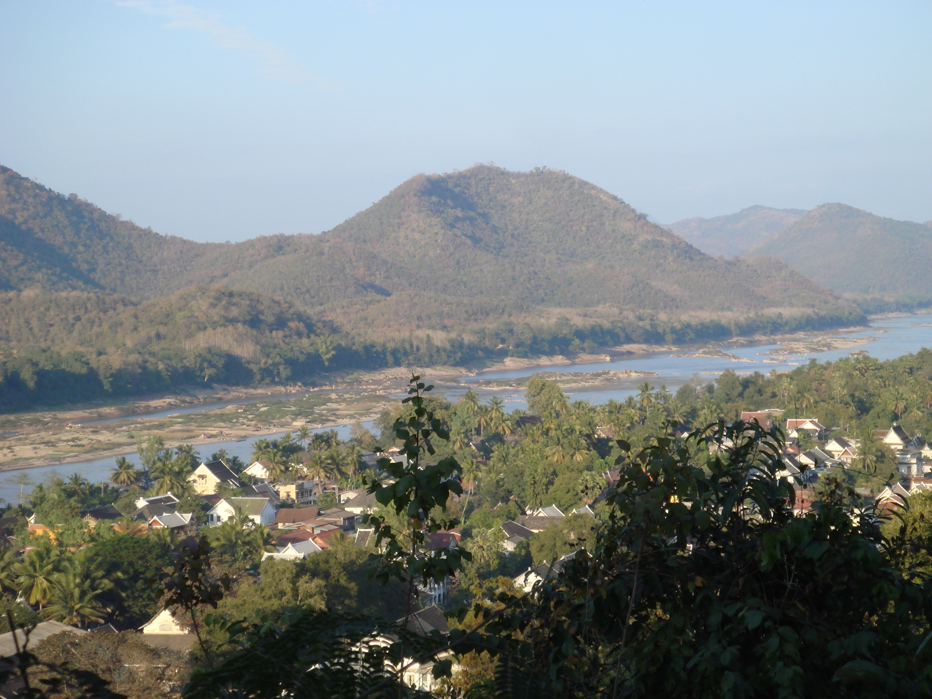 Mekong near Luang Prabang (Luang Prabang, Laos).